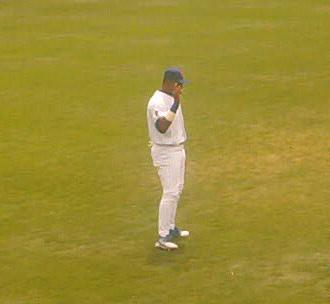 took this myself in 1998 during home run chase 03:39, 8 August 2007 . . Wjmummert . . 330×304 (12 KB)